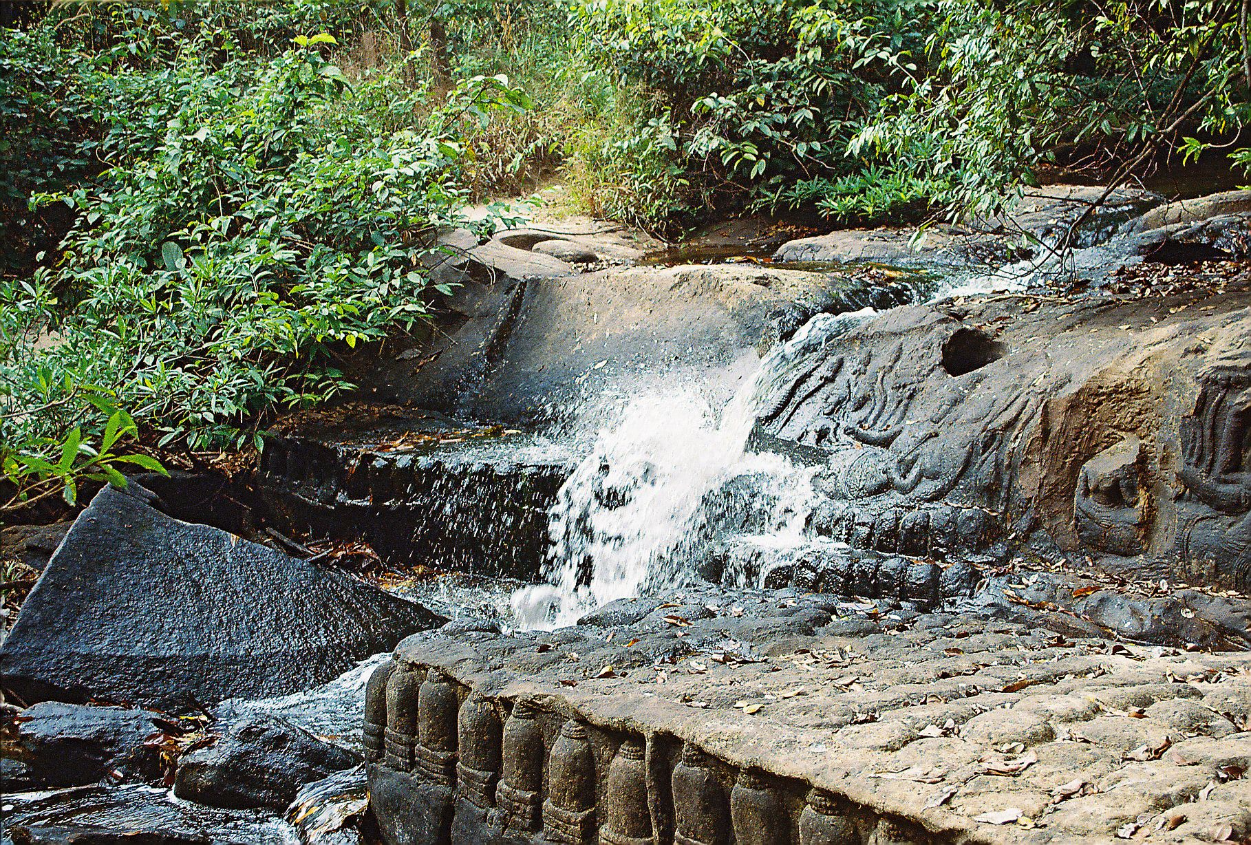 Picture of a waterfall and lingas at Kbal Spean in Ankor, Cambodia